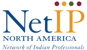 The official logo of the Network of Indian Professionals